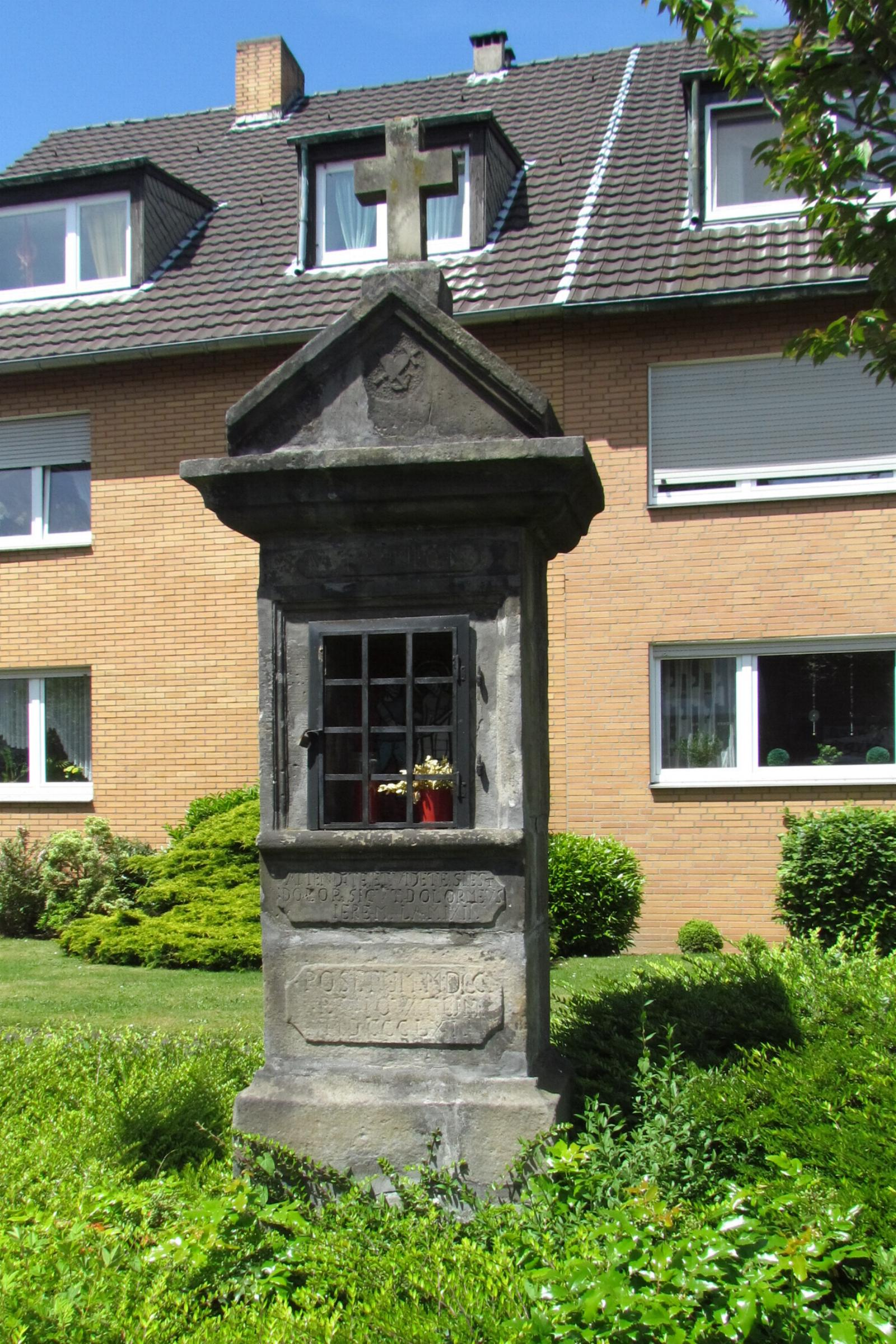 This is a photograph of an architectural monument.It is on the list of cultural monuments of Korschenbroich